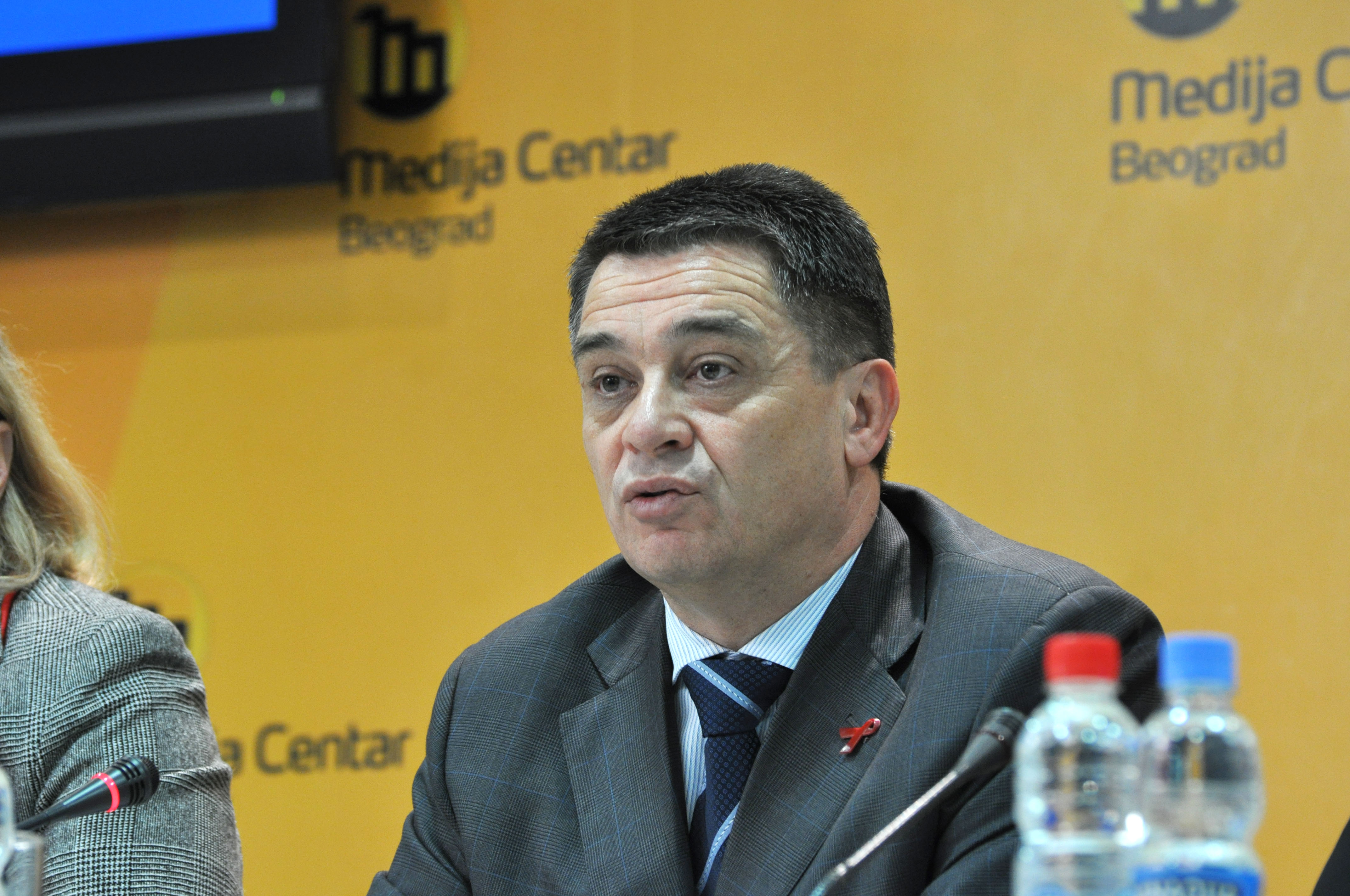 Tomica Milosavljević